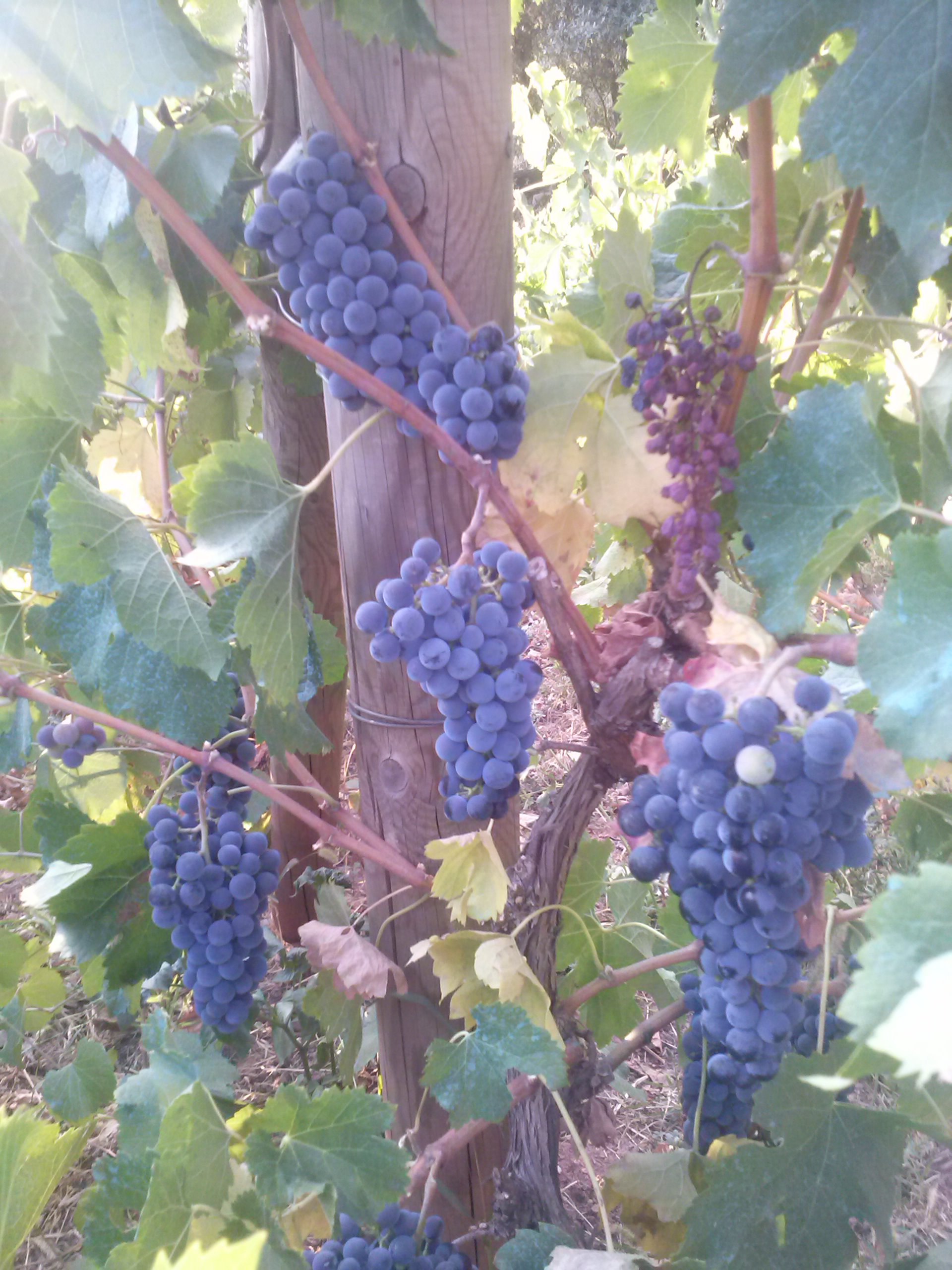 Grapes of the vineyard of Can Pere Moliner, Tagamanent (Catalonia)